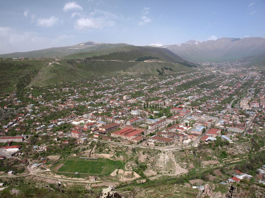 Goris city, Armenia